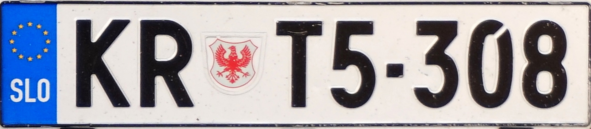 Slovenian license plate with the sticker of Kranj administrative unit. 2004-2008 series plate.